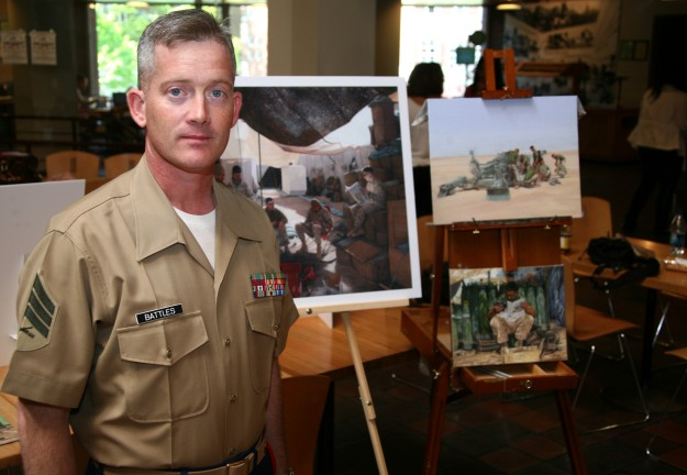 Sgt. Kristopher J. Battles, the combat artist with the National Museum of the Marine Corps, stands in front of his paintings, May 5, 2010, at the John F. Kennedy School of Government for Harvard University. Battles showed several paintings, sketches and portraits for residents and tourists to see the artwork of a combat artist, in Cambridge, Mass., to help tell the Marine Corps story during Marine Week.